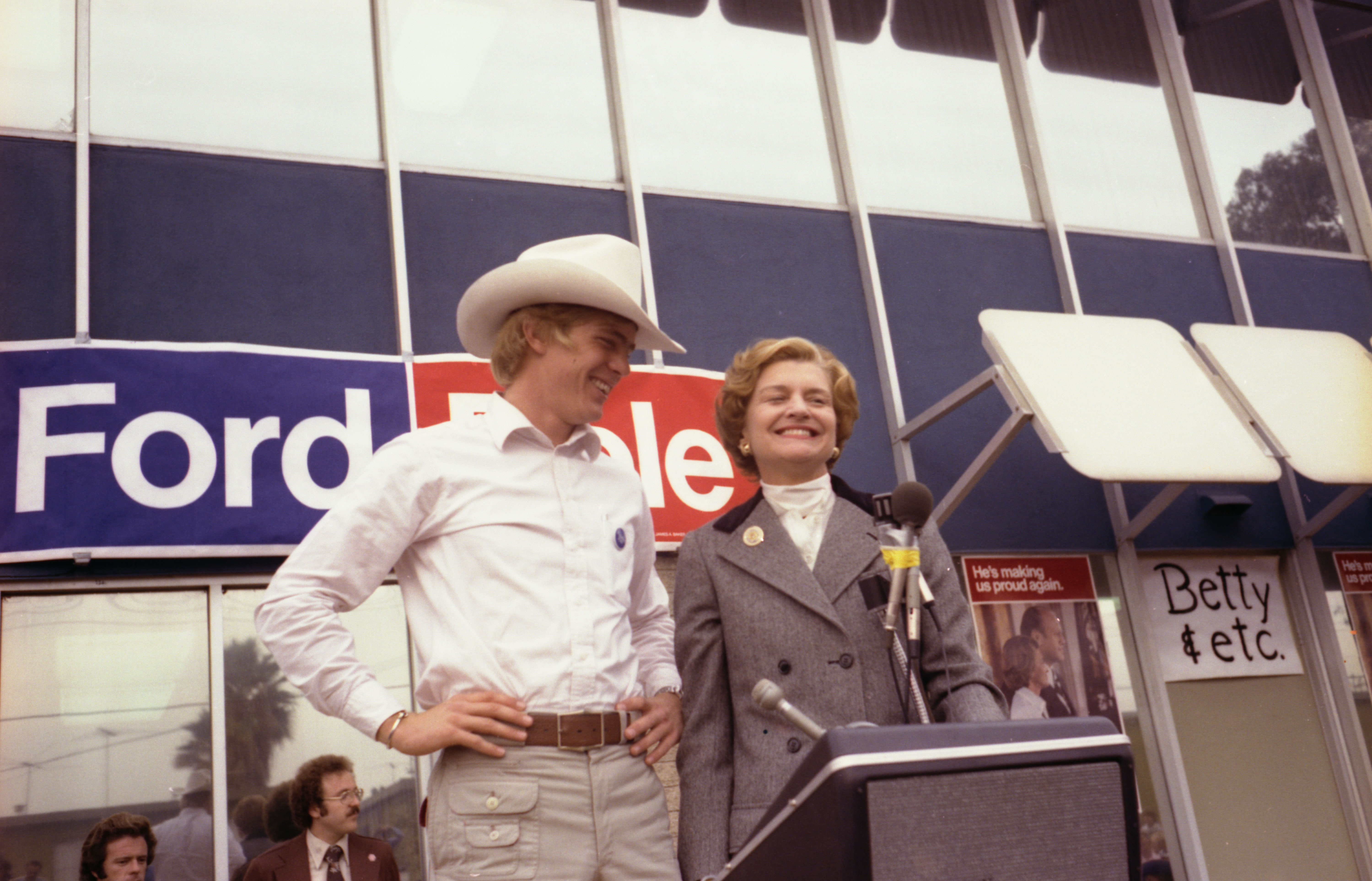 First Lady Betty Ford introduces her son Steve to a crowd gathered outside a President Ford Committee phone bank in Downey, California.